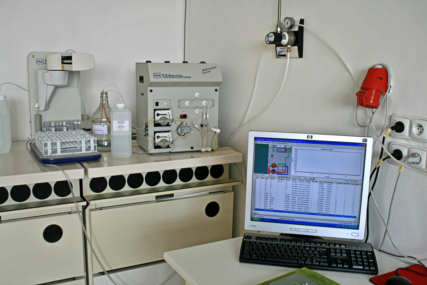 Fluorescence analyzator Merlin for very senstive mercury determination from P.S.Analytical Company production